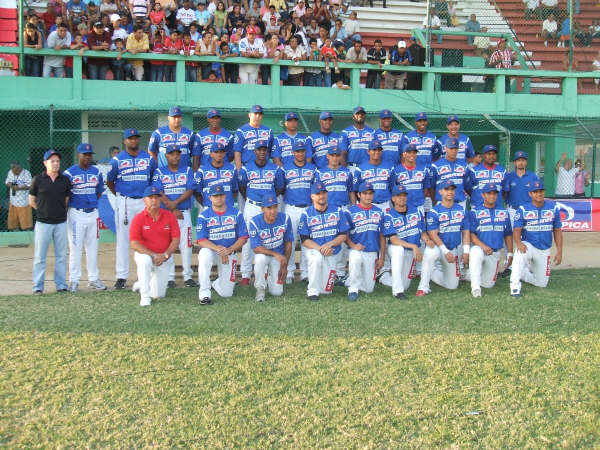 Caimanes de Barranquilla